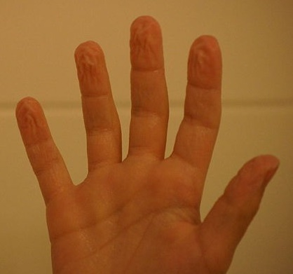 Wrinkly fingers through moisture